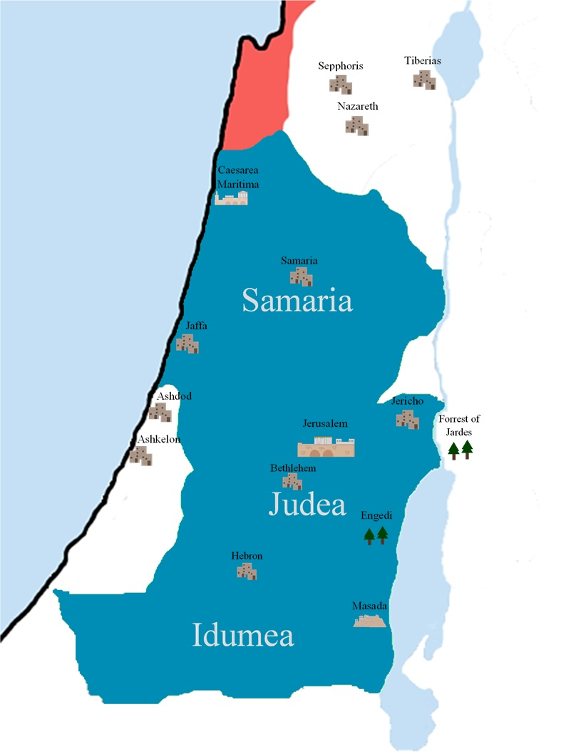 Map of the land granted to Herod Archelaus as Ethnarch of Judea, Samaria and Idumea (shown in white font) by Augustus in 4 BCE until his deposition an dthe establishment of the Province of Iudaea in 6 AD.